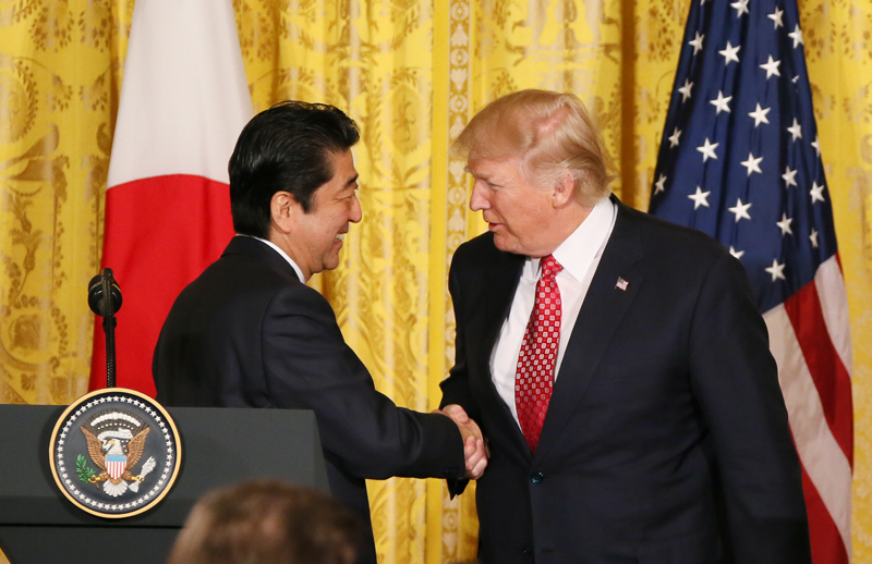 Prime Minister Shinzō Abe and President Donald Trump shaking hands on February 10, 2017.